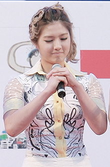 Ferlyn Skarf in May 2013